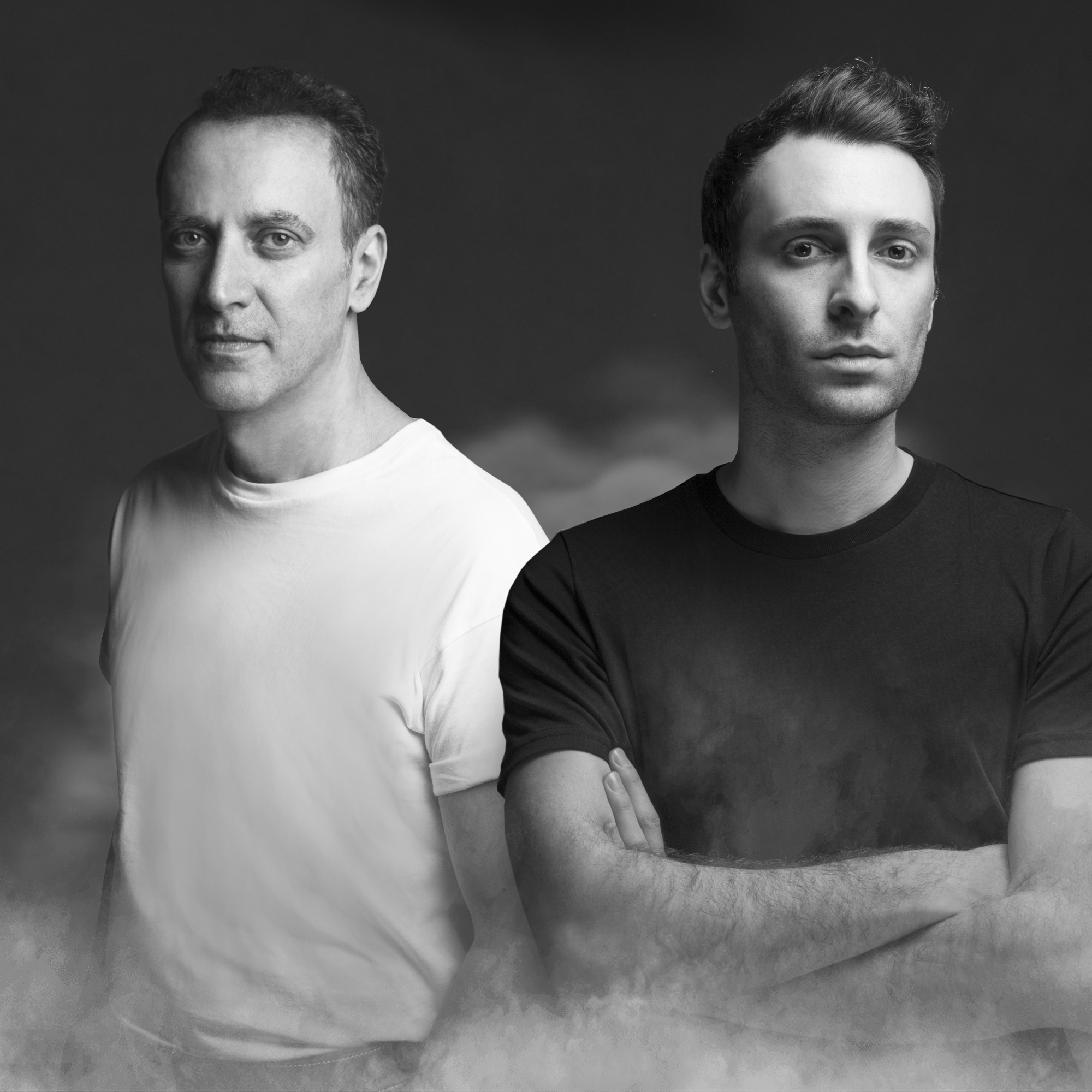 Press shot of Brian Wayy and Masoud Fuladi of MaWayy by Hamed Arts